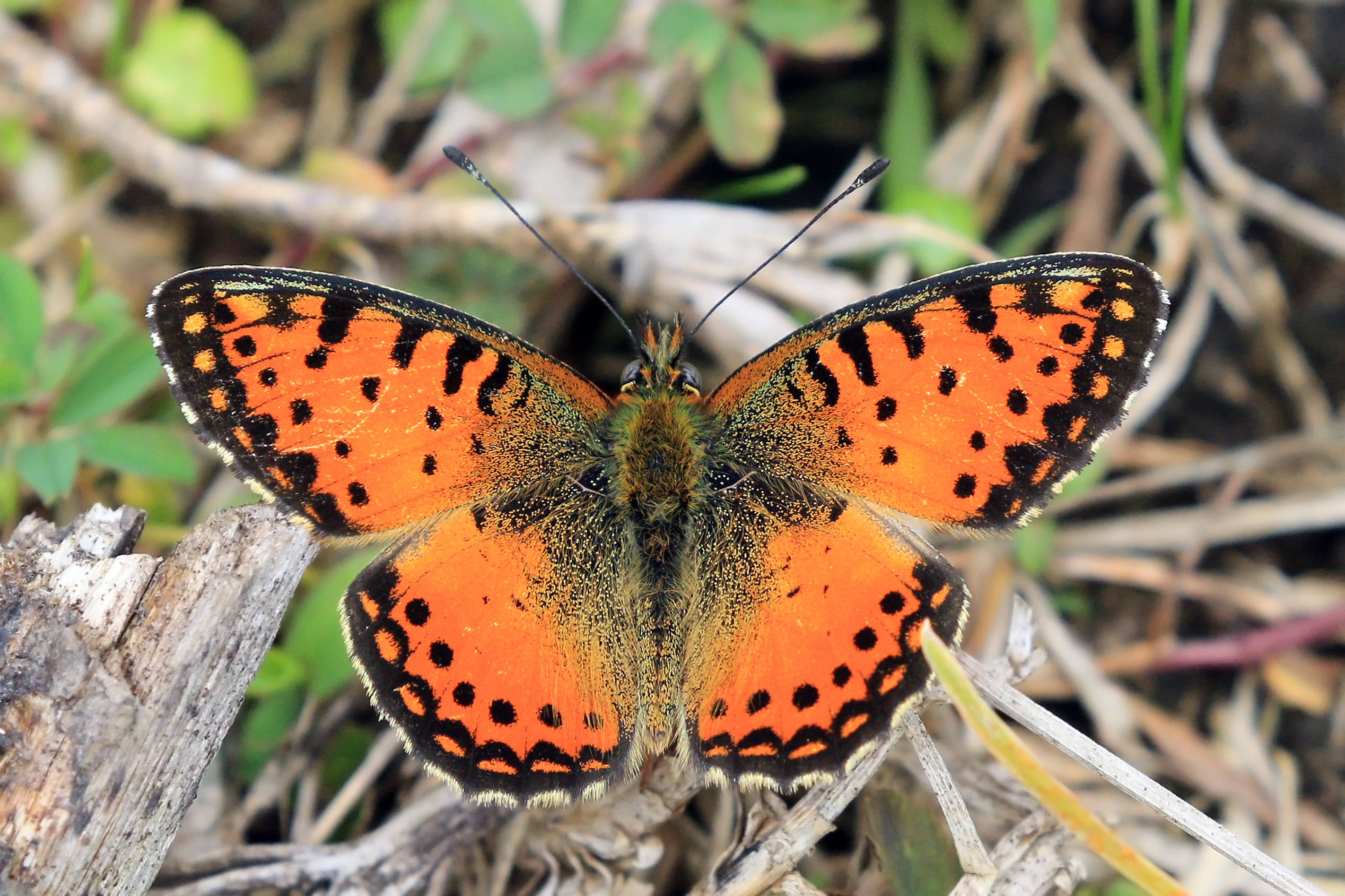 Baumann's mountain fritillary (Issoria baumanni excelsior), near Mount Bisoge, Rwanda